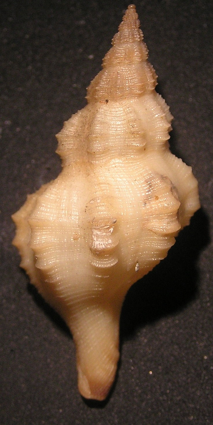 Granulifusus vermeiji M.A. Snyder, 2003 , a spindle snail in the family Fasciolariidae; Philippines